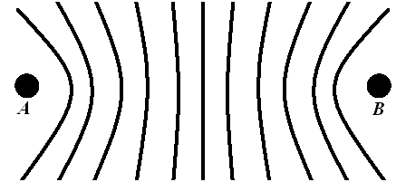 Crude diagram of time-difference principle. The delta between the time of receipt of synchronized signals from radio stations A and B is constant along each line of curve.